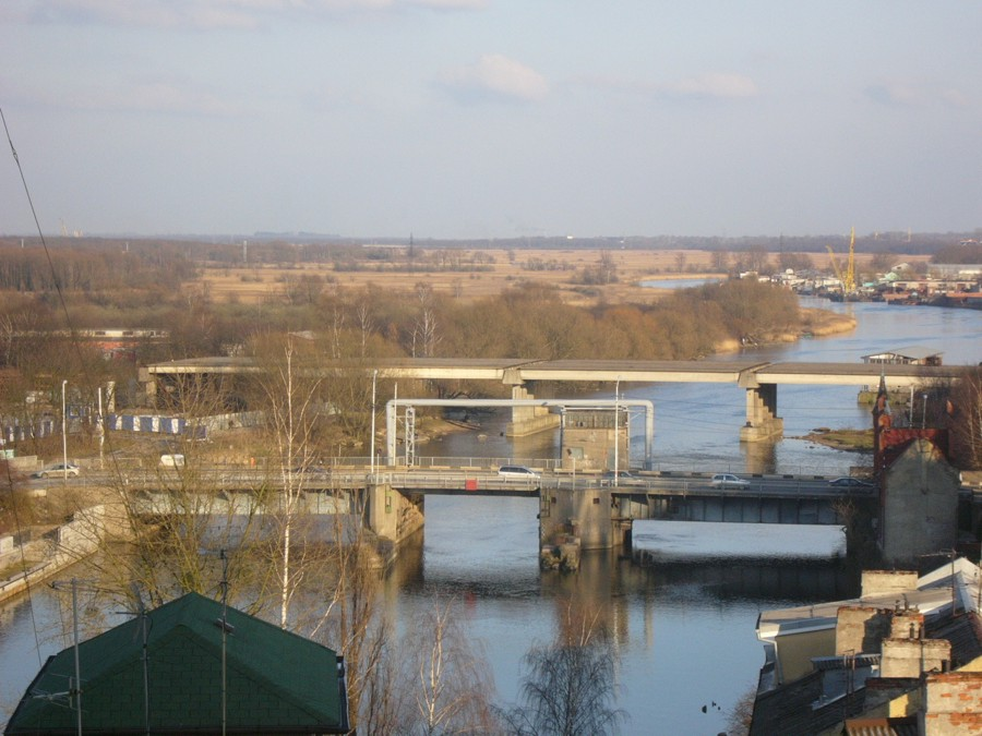 High bridge in Kaliningrad, one of the Seven Bridges of Königsberg. View from Epronovskaya street.